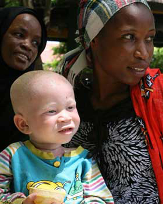 Name: Chemistry ID: Language: English Summary: Chemistry is designed for the two-semester general chemistry course. For many students, this course provides the foundation to a career in chemistry, while for others, this may be their only college-level science course. As such, this textbook provides an important opportunity for students to learn the core concepts of chemistry and understand how those concepts apply to their lives and the world around them. The text has been developed to meet the scope and sequence of most general chemistry courses. At the same time, the book includes a number of innovative features designed to enhance student learning. A strength of Chemistry is that instructors can customize the book, adapting it to the approach that works best in their classroom. Subjects: Science and Technology OpenStax Featured Keywords: Print Style: CCAP Chemistry License: Creative Commons Attribution License (by 4.0) Authors: OpenStax Copyright Holders: Rice University Publishers: OpenStax OpenStax Chemistry Latest Version: 9.311 First Publication Date: Oct 2, 2014 Latest Revision: Jun 20, 2016 Last Edited By: OpenStax Chemistry